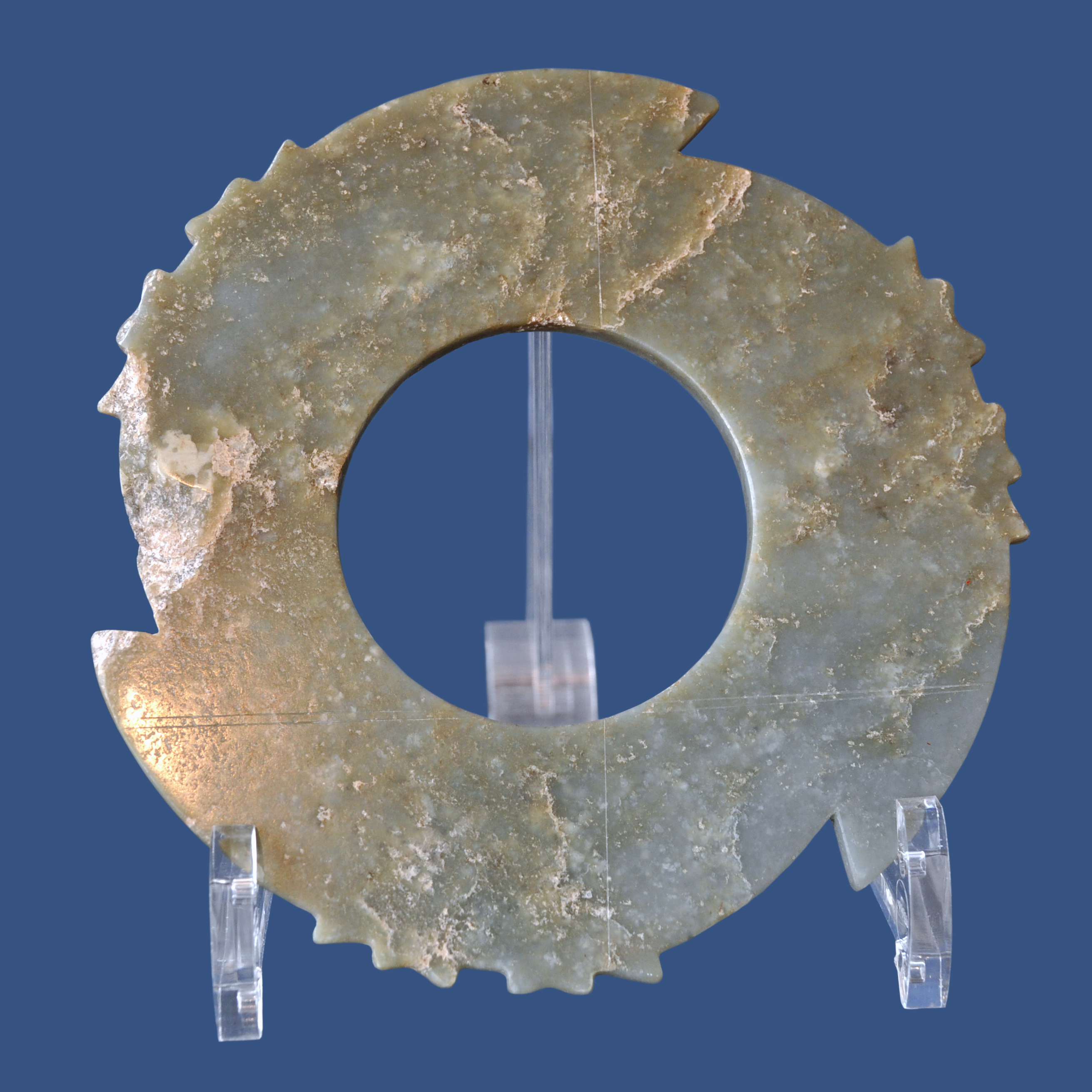 Ritual disc Xianji, jade, Neolithic 3000 BC (?), China. Royal Museums of Art and History (MRAH), Jubilee Park, Brussels.